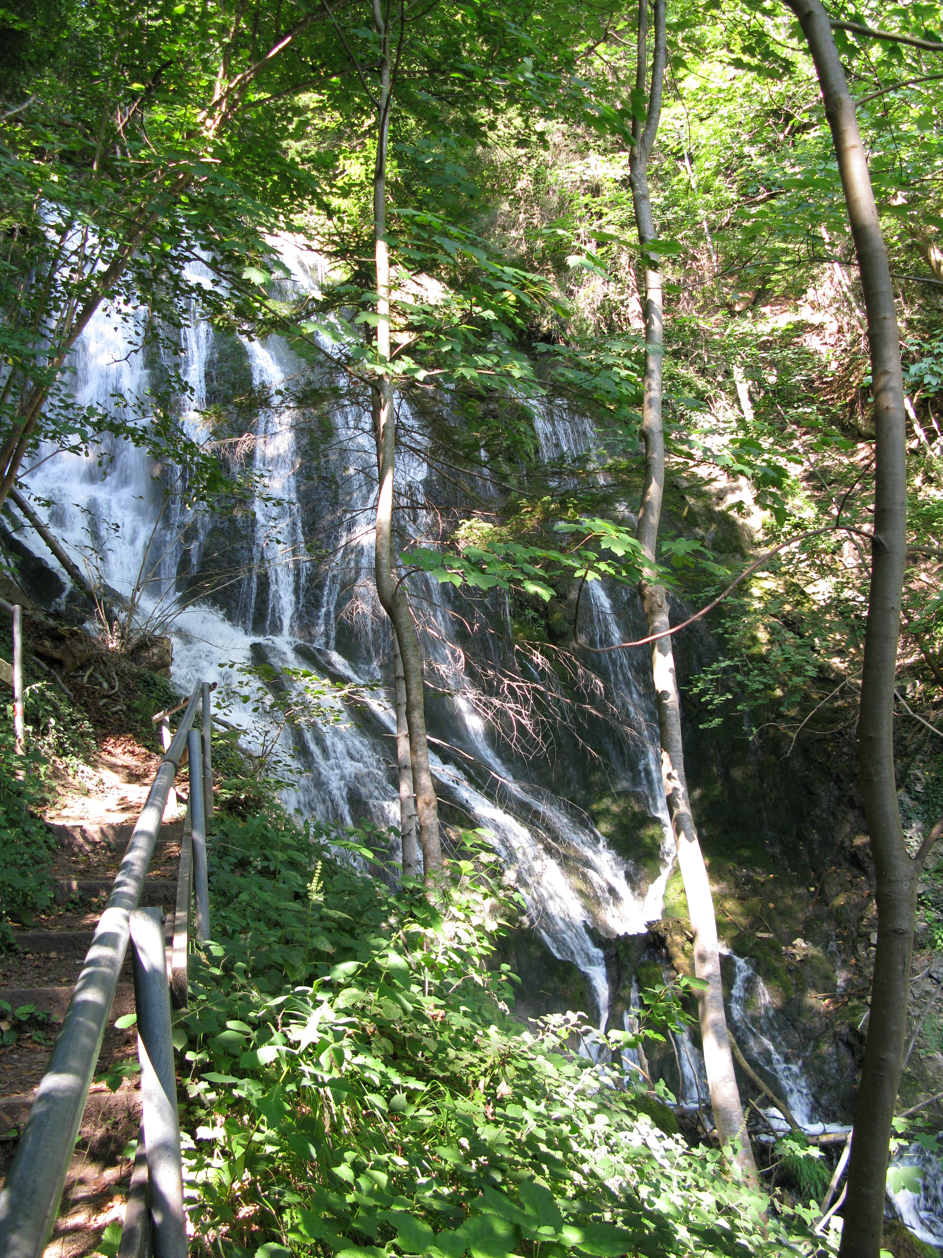 The Montjola-Waterfall close to Thüringen (Vorarlberg, Austria).